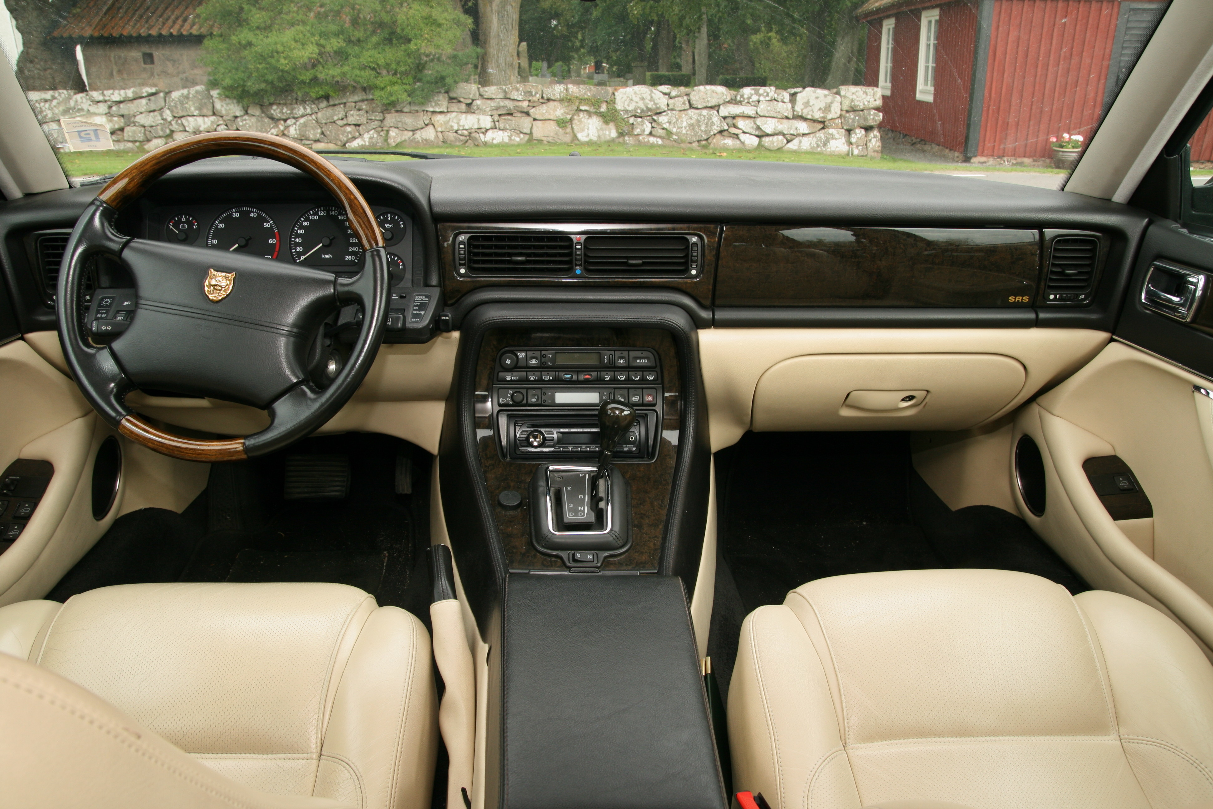 The interior and fascia of a 1995 Jaguar XJ Sport. The upper part of the fascia is Warm charcoal while the lower part and leather upholstery is Cream. The wood veneer is gray-stained birdseye maple. This car has a glove compartment, identifying it as a late 1995 model.